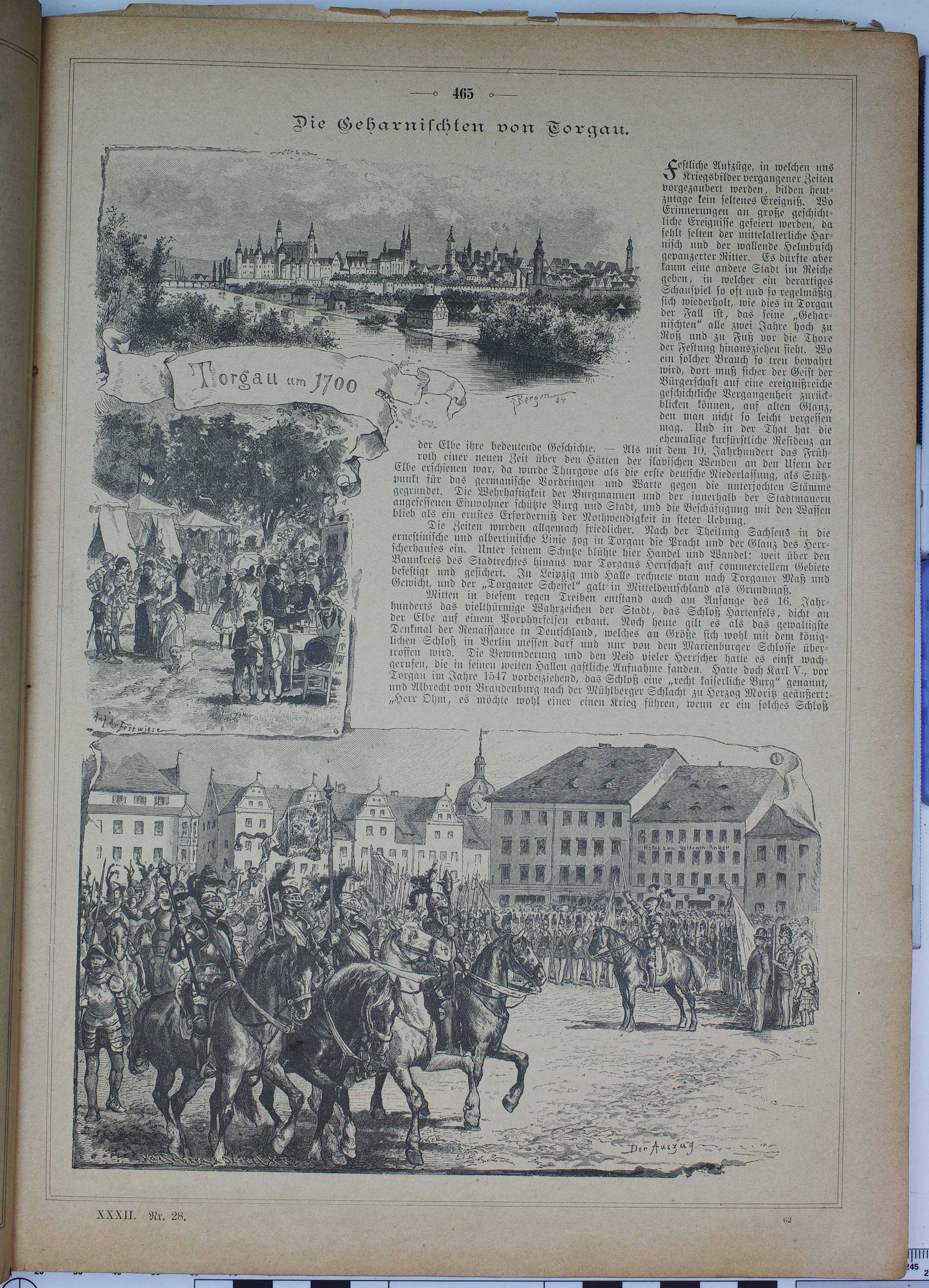 Expression error: Unrecognized word "die".